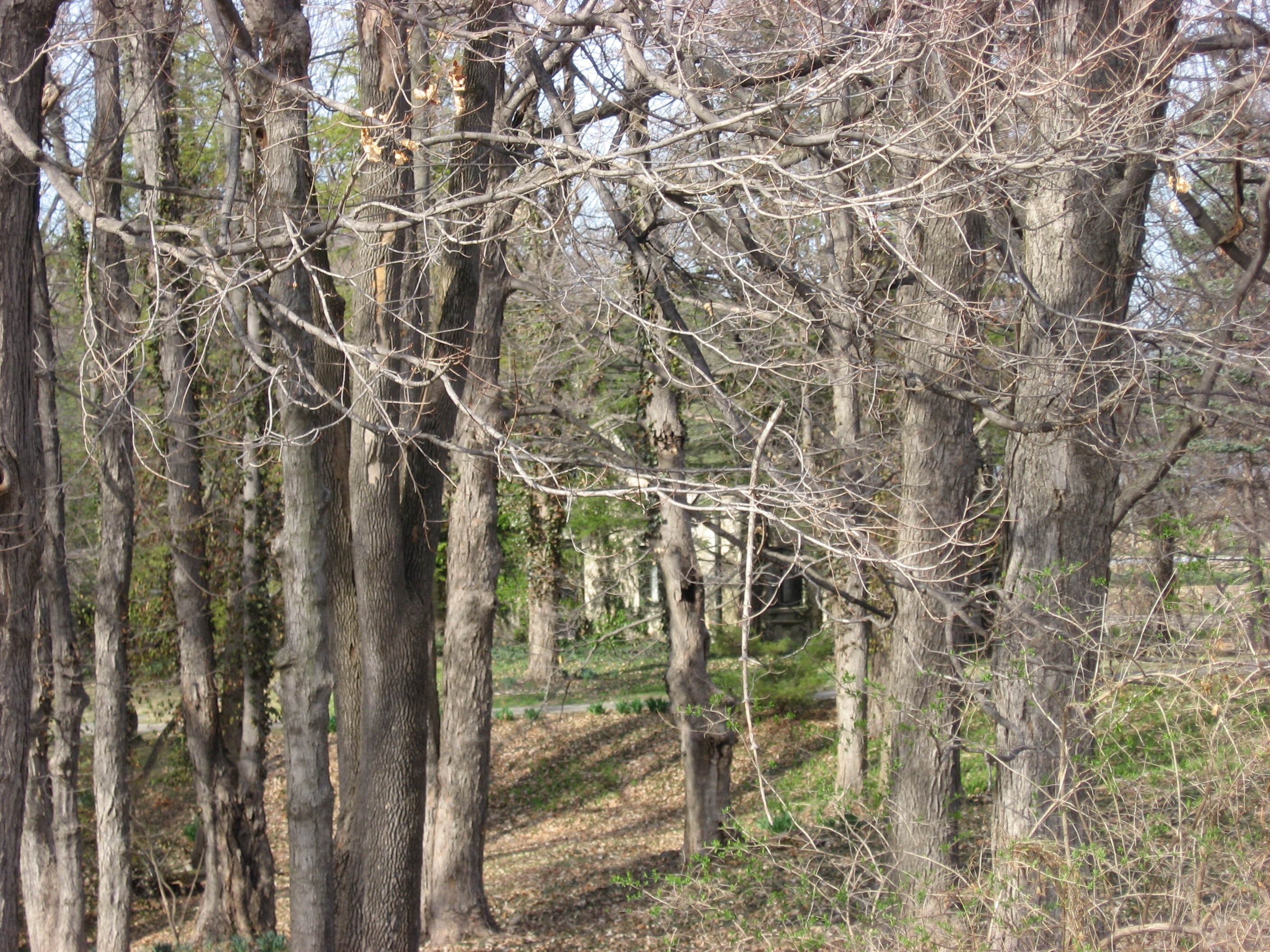 Slight view through the trees of the Jamieson-Bennett House, located at 8452 Green Braes North Drive in Indianapolis, Indiana, United States. Built in 1936, it is listed on the National Register of Historic Places.